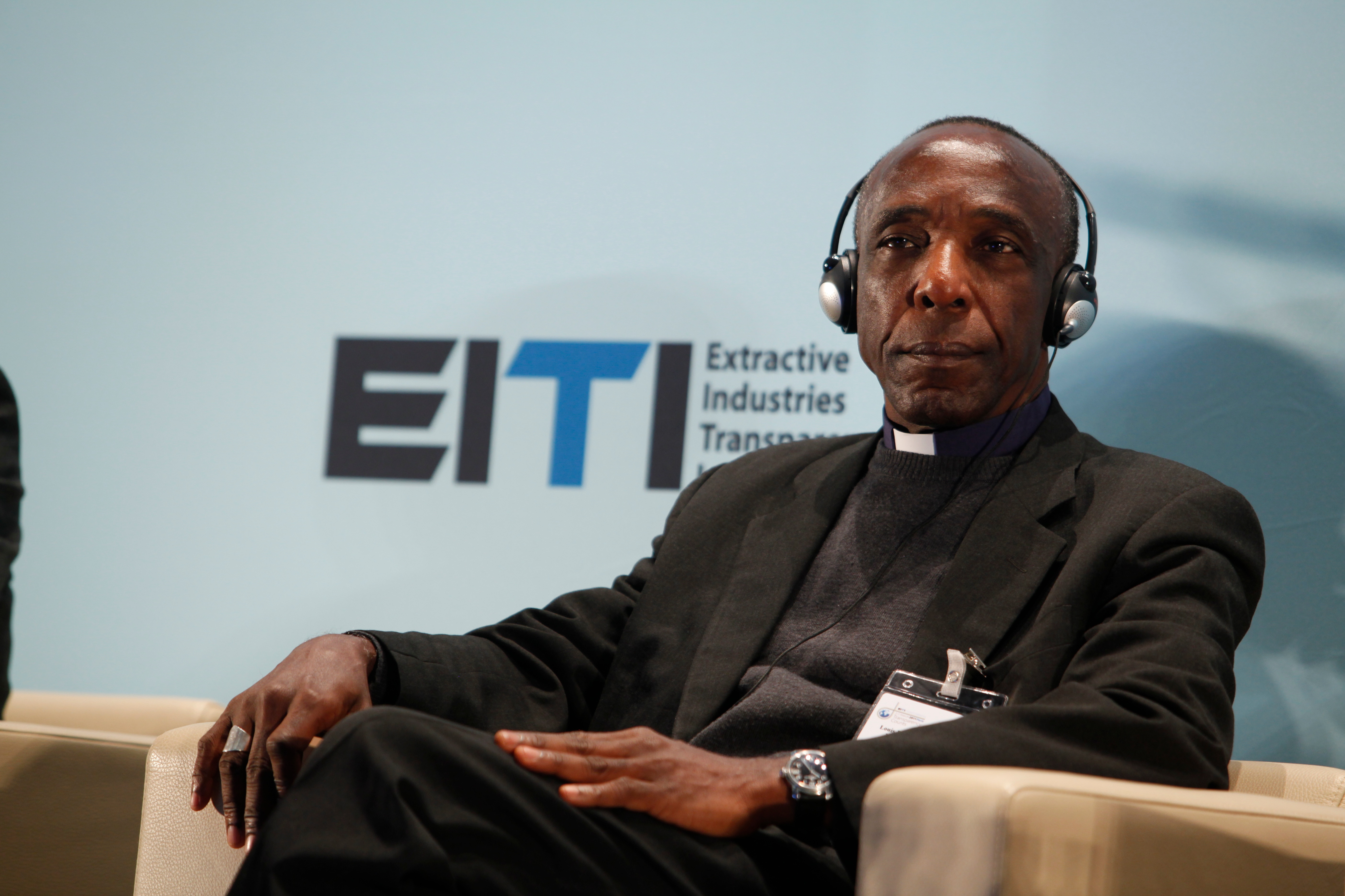 Louis Portella Mbuyu during the 5th EITI Global Conference in Paris, France